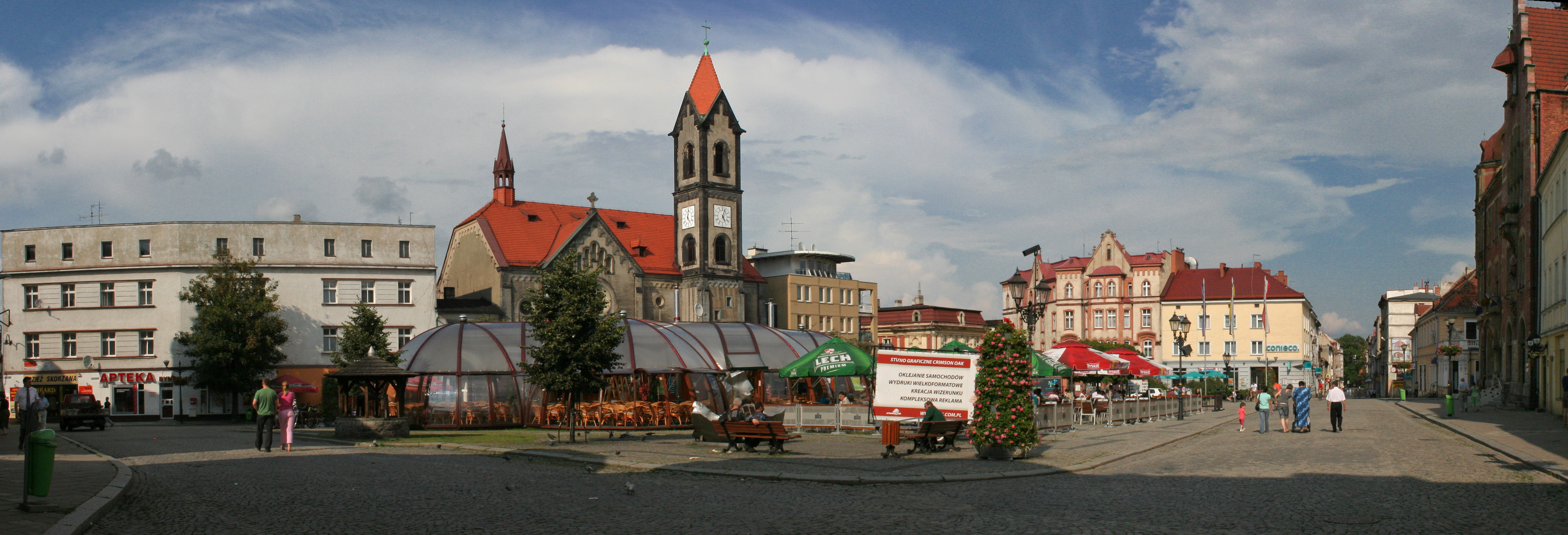 Market square in Tarnowskie Góry.